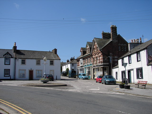 The Square of Auchencairn. Viewed from Church Road, Main Street (with the large English style building) branches right with Spout Row behind the old decorative globe street lamp. The 18th century white building to the right is the former Commercial Inn.